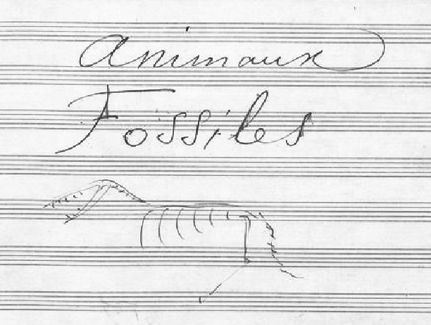 Title page of manuscript of "Fossils", no. 12 in The Carnival of the Animals